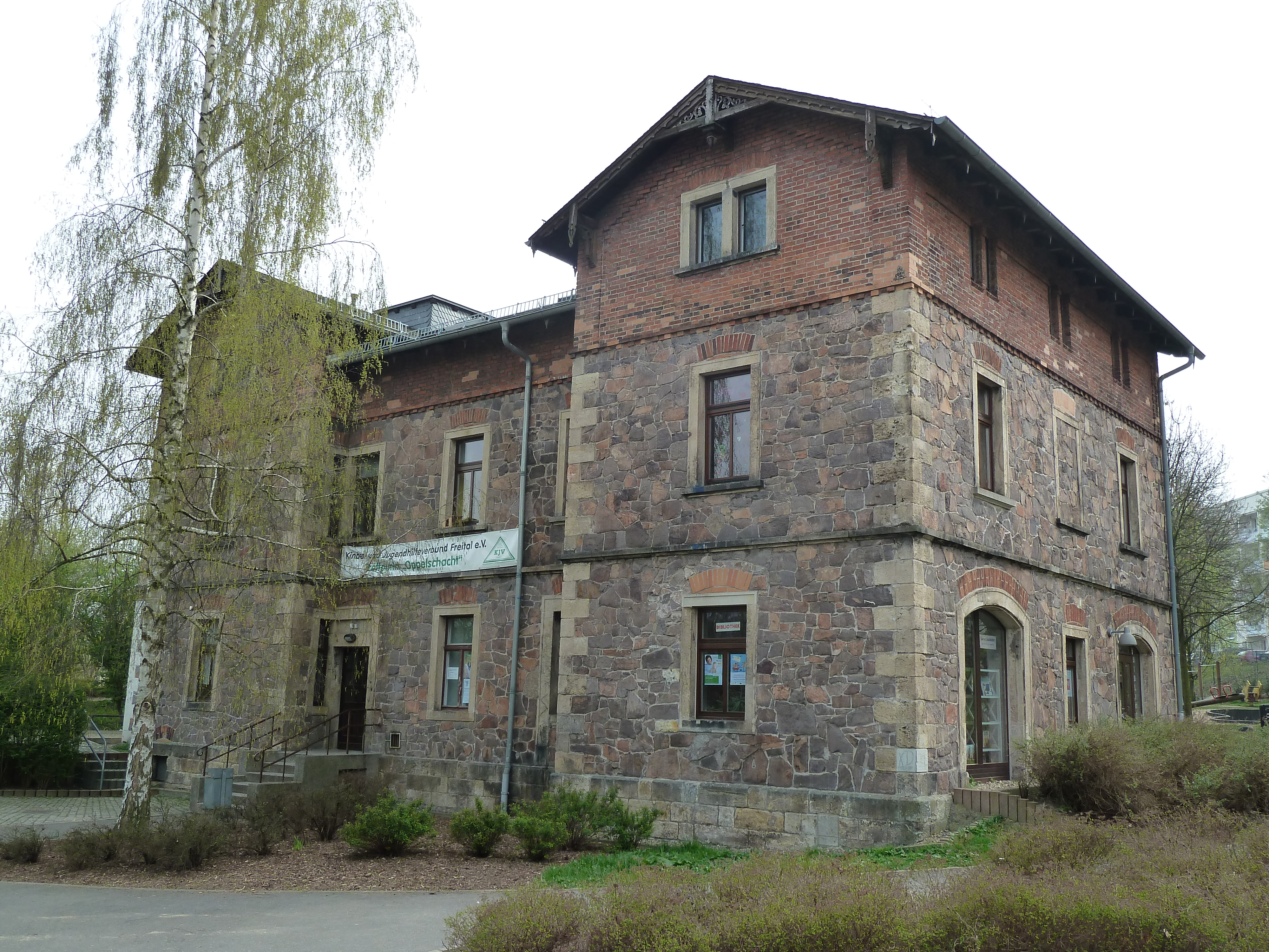 Oppelschacht – office building of the Royal-Saxon Collieries Zauckerode. Today the building houses a centre for children and youngsters and a municipal district library. In 1830 planned the counsellor of the Royal Saxon Mountain Board a main shaft of higher efficiency to replace thirteen dispersed hoisting shafts of the Zauckerode collieries. The shaft was sunk in 1833 as Prince Friedrich Shaft into a depth of 222 m. When it´s creator died in the same year, his name was given to the shaft. In 1882 the first electric locomotive of the world, called "Dorothea", was commissioned for a main transportation gallery across the seam. In 1948, soon after the collieries came into state ownership, the mine was renamed into Arthur-Teuchert-Schacht. Teuchert (1897—1952), a face worker, increased his production up to a pre-arranged 480 percent quota to strengthen the low socialist productivity. In 1958 the deposit was depleted and the colliery closed.